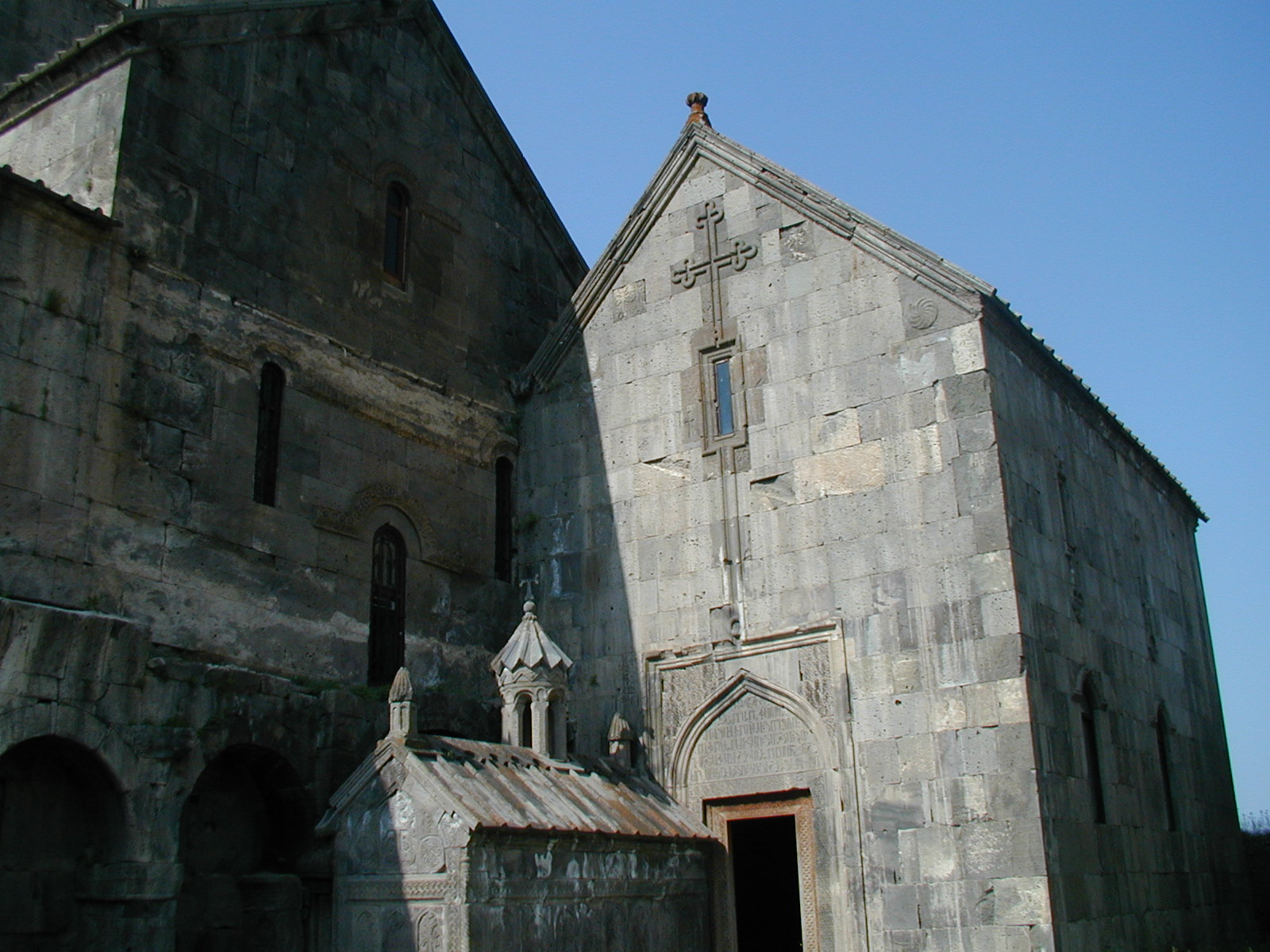 Tatev Monastery, Armenia. In the center, mausoleum of Grigor Tatevatsi.